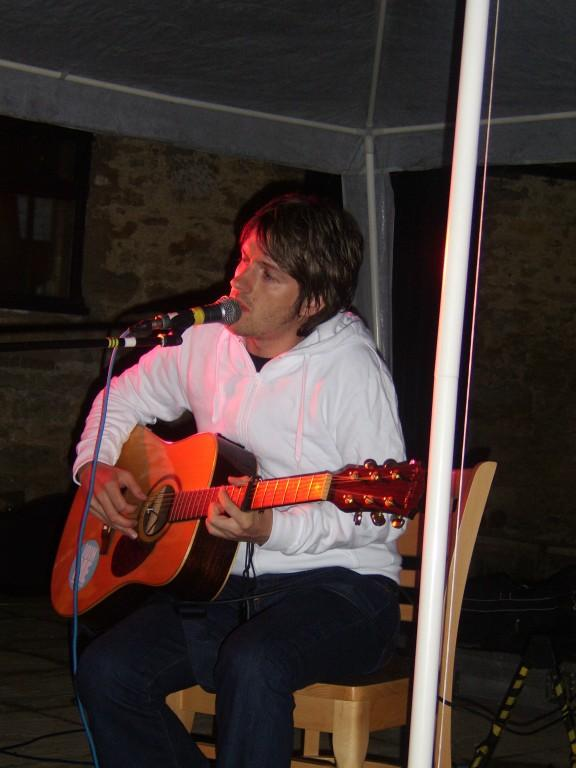 Alistair Griffin @ Dalby forest